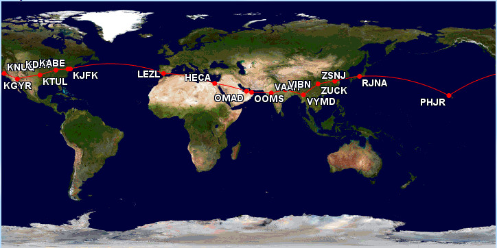 A world map of the airport sequence followed by Solar Impulse 2 in its circumnavigation of the Earth ending July 26, 2016.